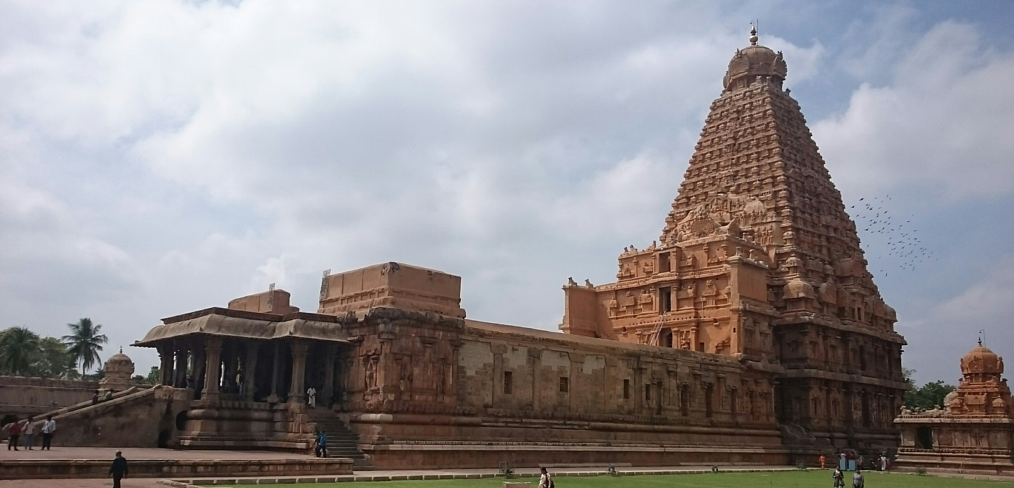 Brihadeeswarar Temple aka Big temple at Thanjavur in Tamil Nadu. Built by Raja Raja Chola 1 and completed in 1010 AD. Temple turned 1000 years old. Government of India released a 1000 rupee coin with picture of Big temple in it to mark this achievement. The temple is a part of the UNESCO World Heritage Site known as the 'Great Living Chola Temples'